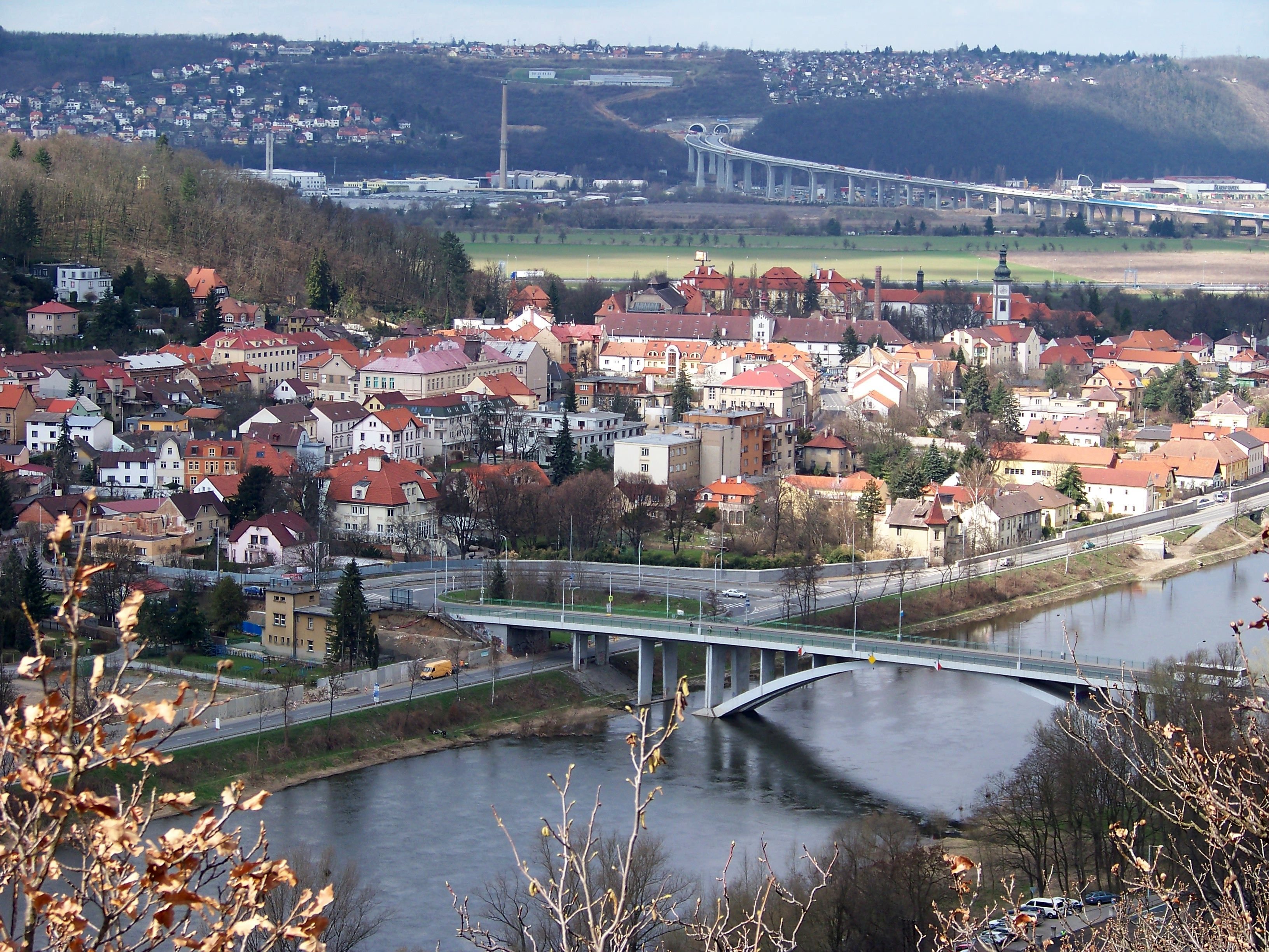 Zbraslav and Radotín, Prague, the Czech Republic. - Google Maps - Google Earth